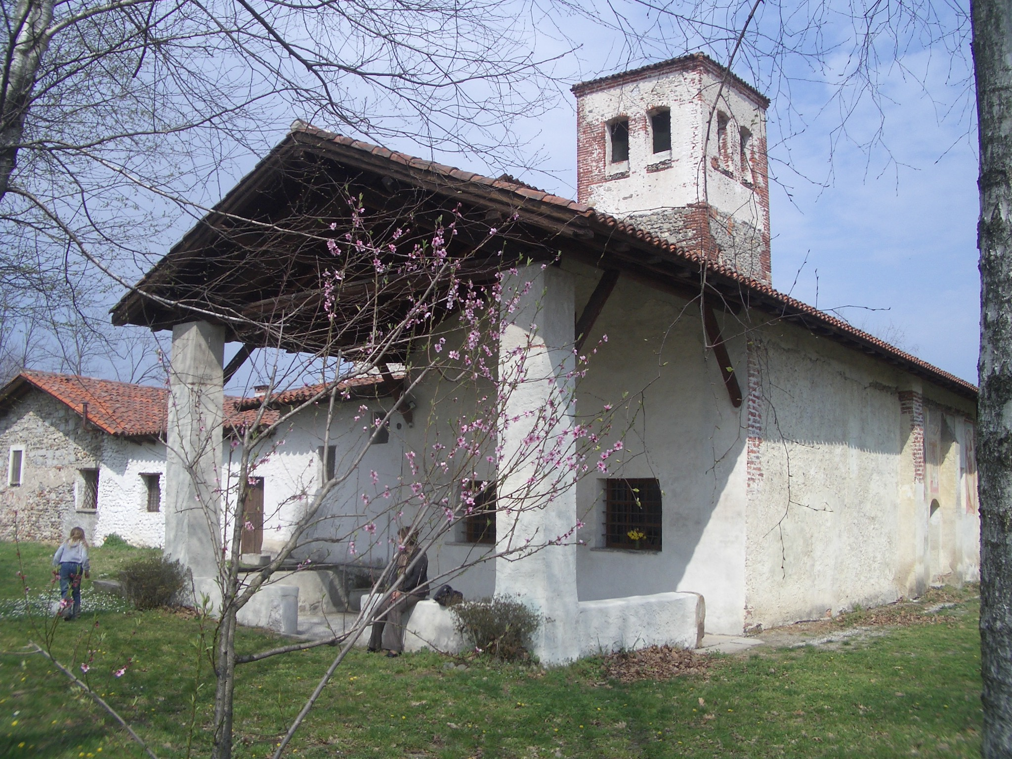 Momo (NO), the oratory dedicated to Holy Trinity, XI century